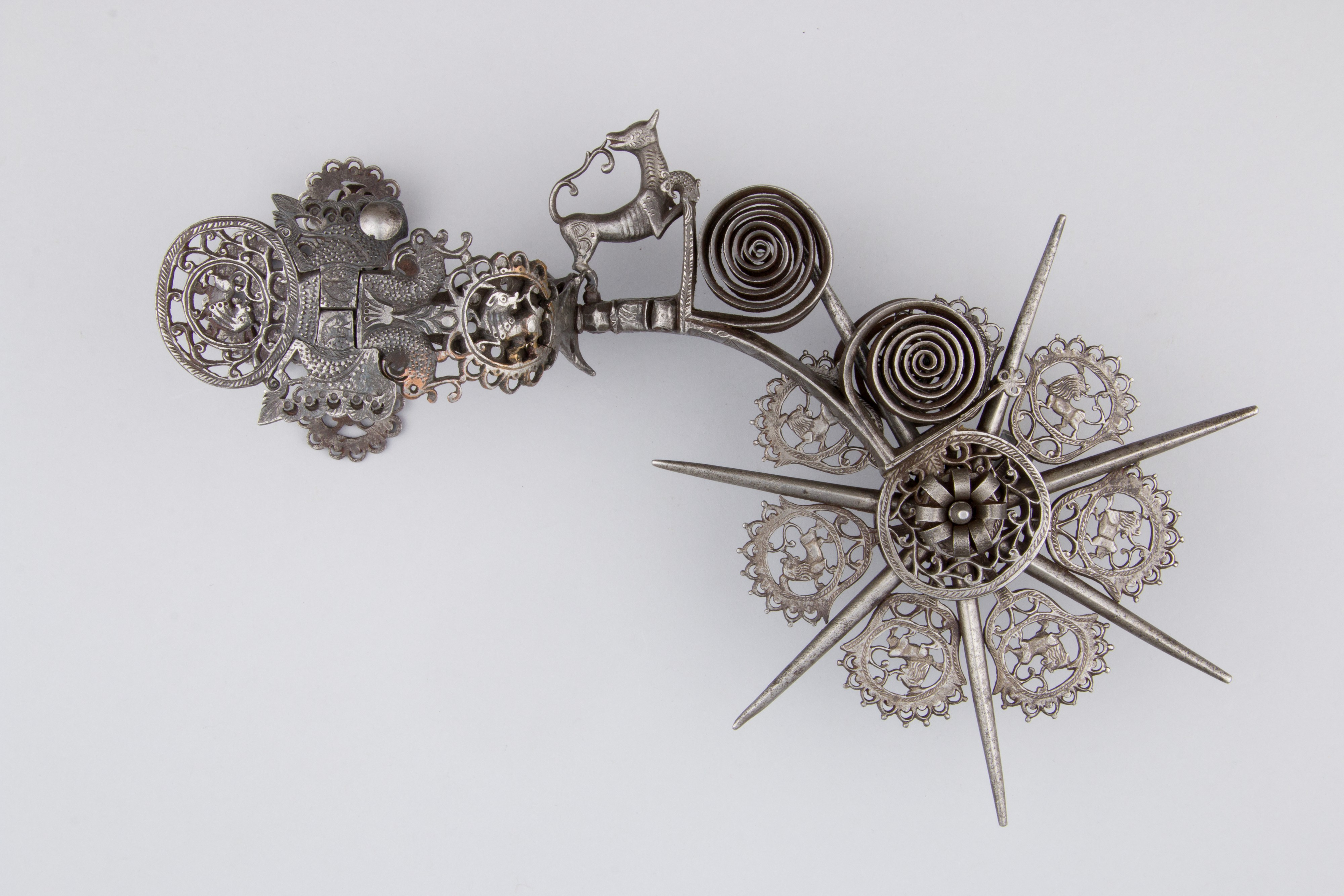 Mexican or Spanish; Pair of rowel spurs; Equestrian Equipment-Spurs